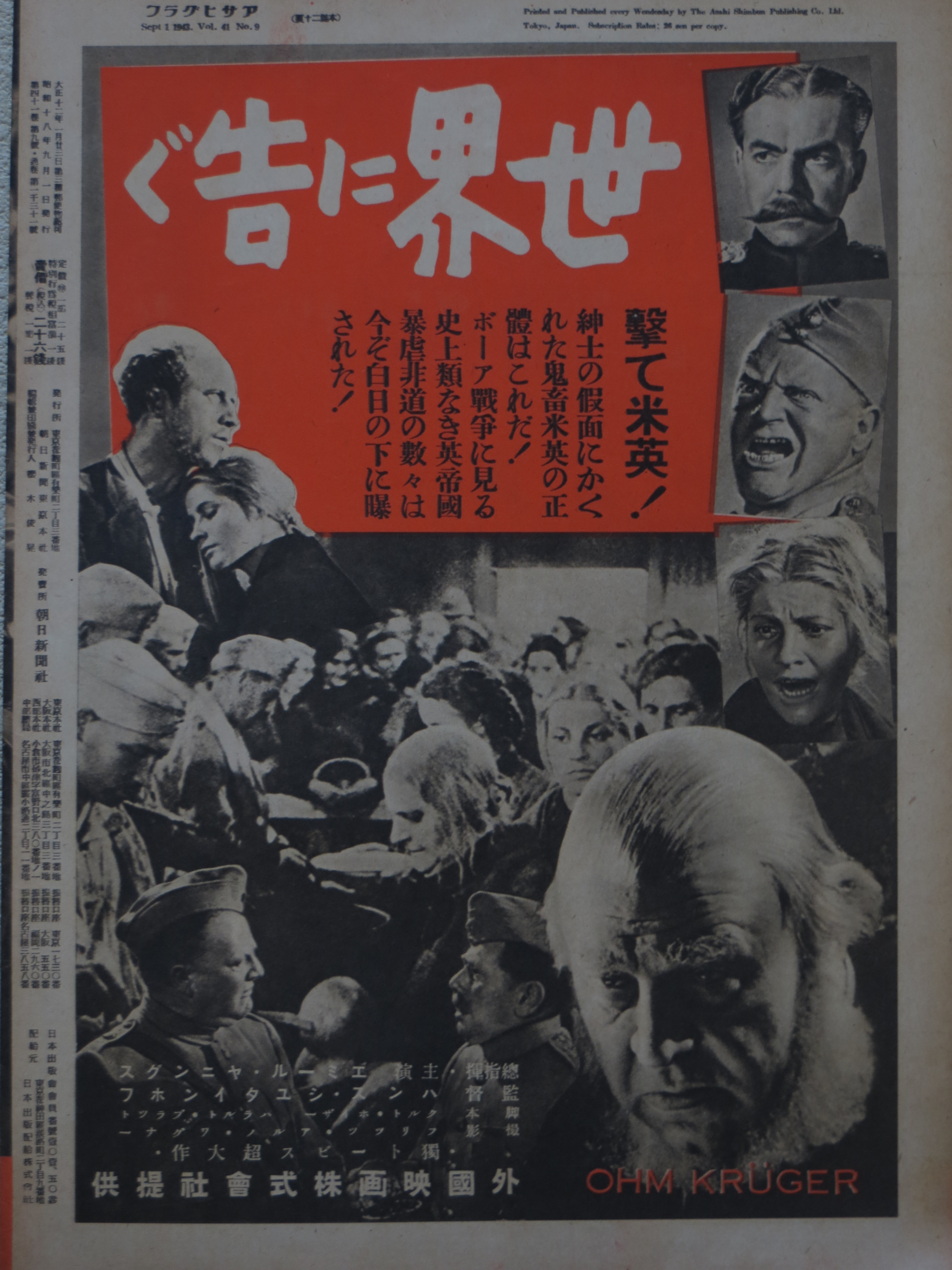 Advertisement from "Ohm Krüger" (1941) Thing when it was published in Japan in 1943. Deitsch: Werbung der Film "Ohm Krüger" (1941). Sache, wenn es wurde in Japan im Jahr 1943 veröffentlicht.